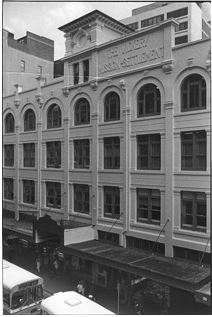 Vickery Mission Settlement, set up by Ebenezer Vickery, Sydney, Australia